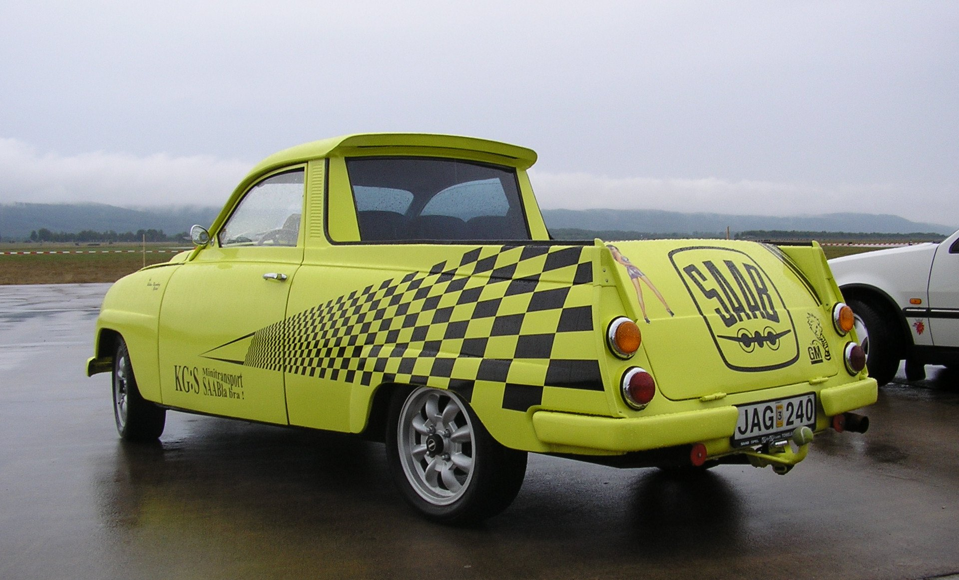 A 1976 SAAB 95L converted to pick-up. Photographed at the International SAAB Club Meeting 2006. Notice that it uses SAAB 99 rims, probably thanks to spacers.